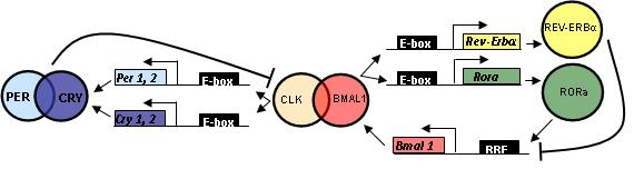 The figure demonstrates the oscillator genes and proteins involved in the mammalian circadian oscillator. At the core of the SCN clock, the two transcription factors CLK and BMAL1 form heterodimers that are then able to to drive the rhythmic expression of three period genes (mPer1, mPer2, mPer3) and two Cryptochrome genes (mCry1 and mCry2) via ebox enhancer elements. The expression of these genes leads to the formation of PER:CRY complexes that are then able to prevent further transcription of mPer and mCry genes by inhibiting the CLOCK:BMAL1 complex. CLOCK:BMAL1 hetrodimers also drive the rhythmic expression of two nuclear orphan receptor genes Rev-erbα and Rora again via ebox enhancer elements. The REV-ERBα and RORa proteins that are consequently produced then compete for the same retinoic acid-related orphan receptor response elements (ROREs) to produce inhibition and promotion of Bmal1 transcription respectively